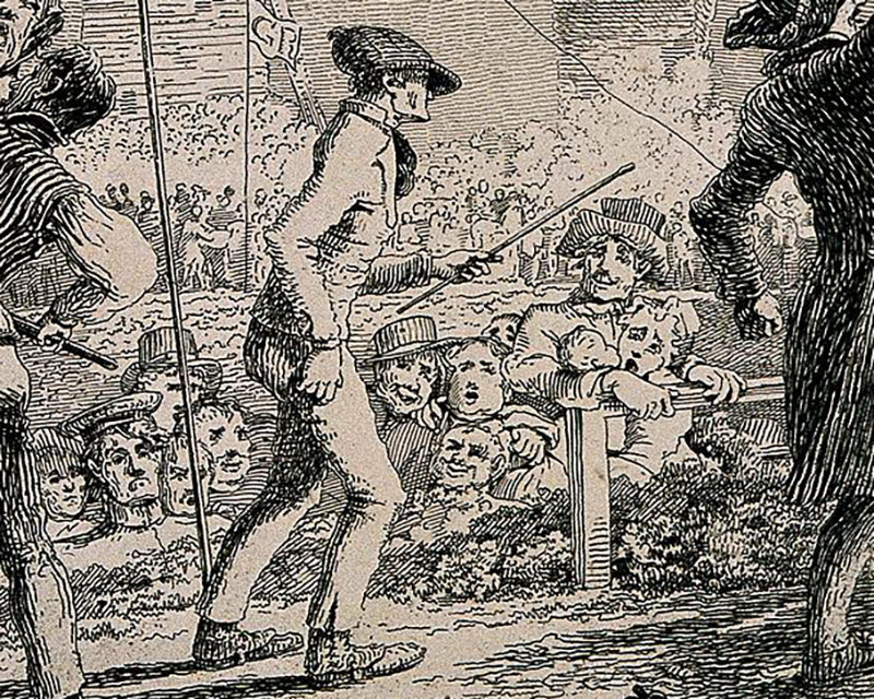 A depiction of George Wilson (The Blackheath Pedestrian) walking.